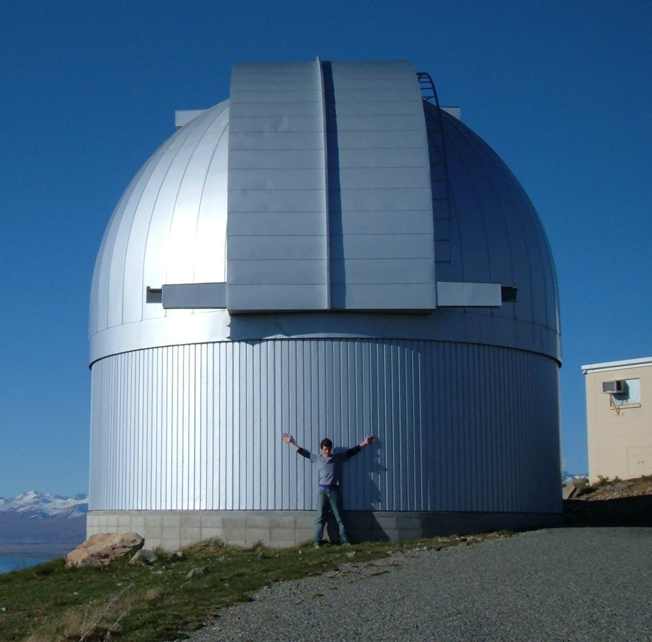 The Microlensing Observations in Astrophysics (MOA) telescope dome at the top of Mount John. The person is the uploader.